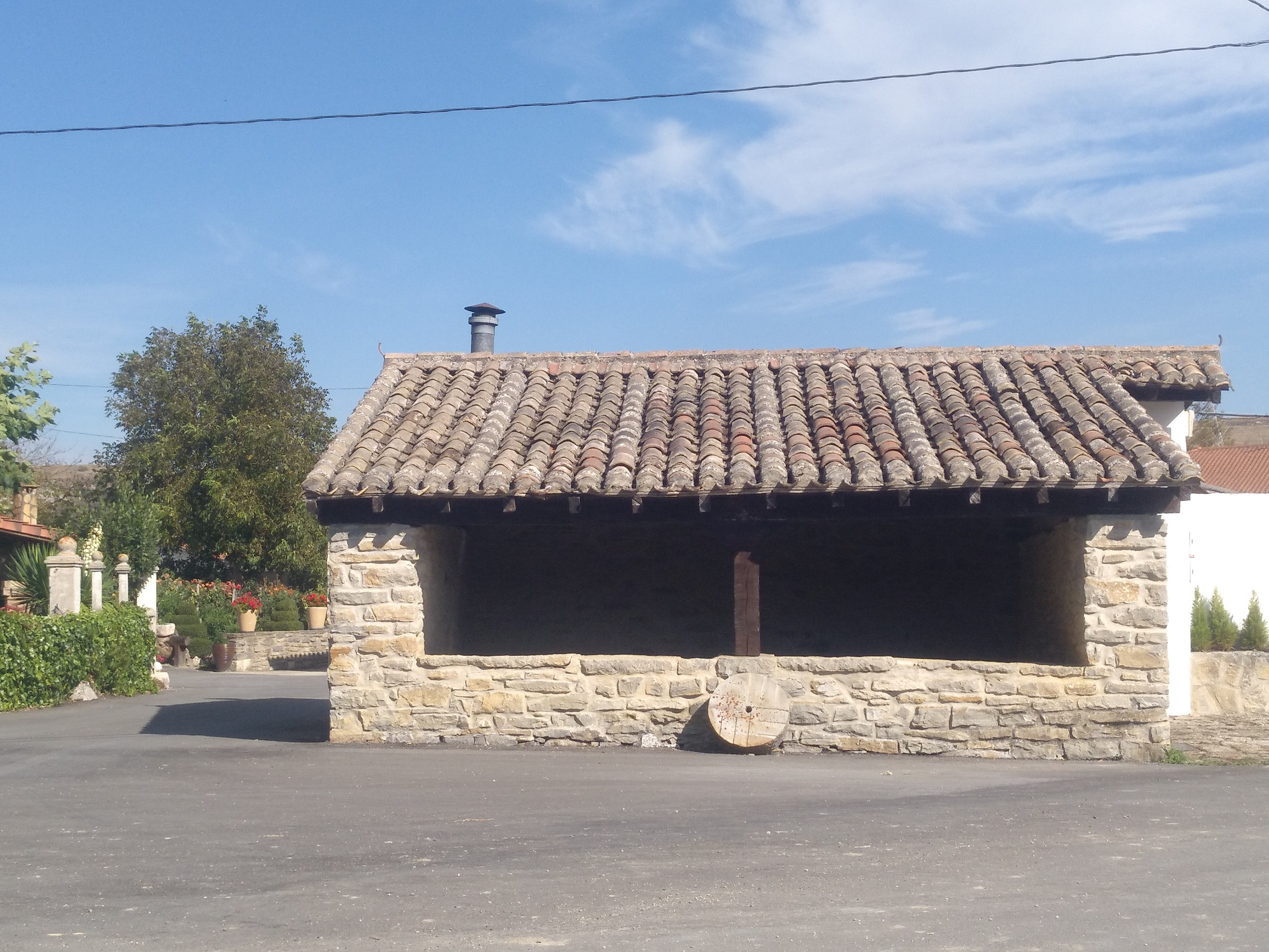 Arrieta laundry, in Iruraitz-Gauna municipality